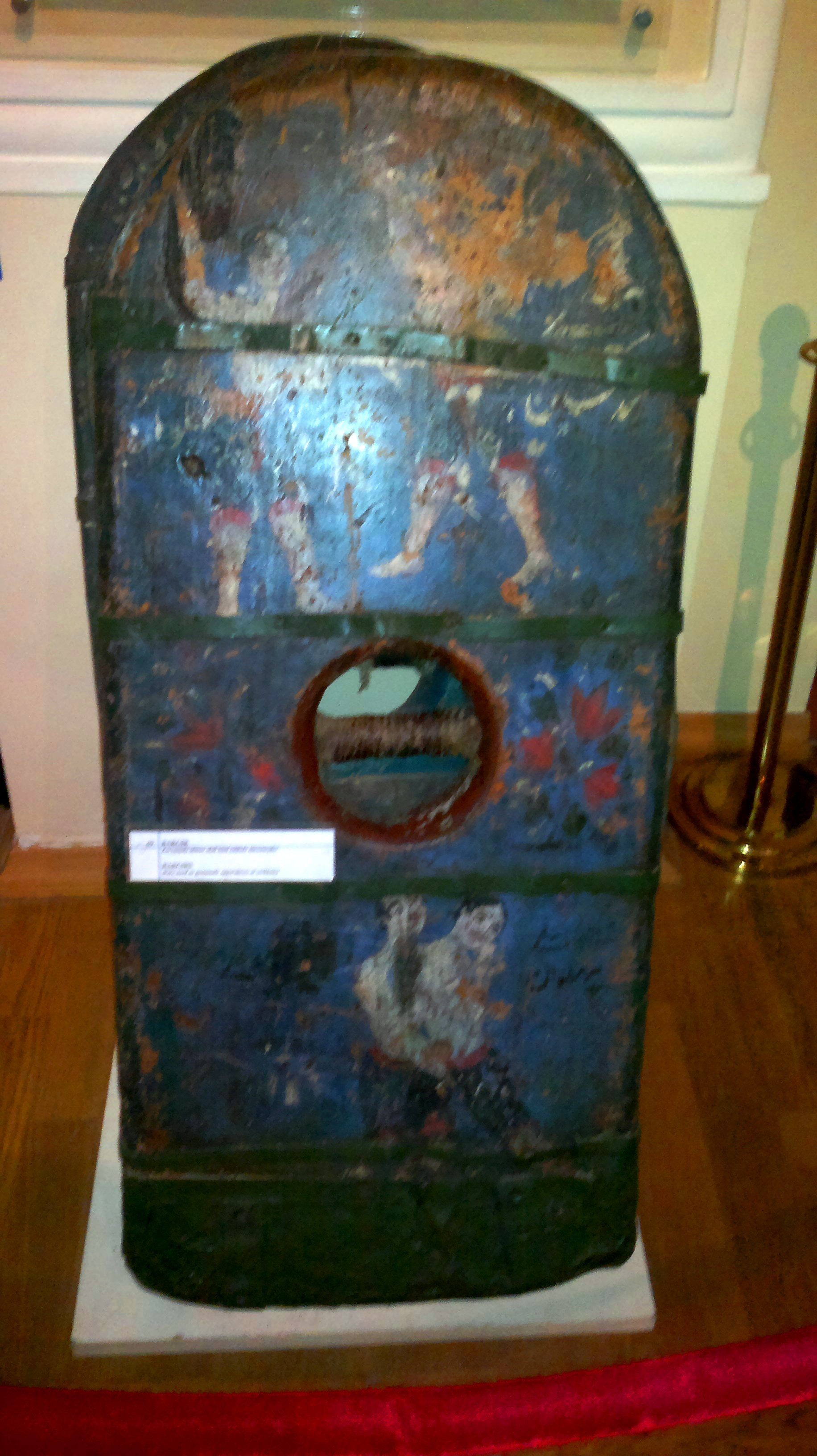 Bargirs, traditional weights or "kettlebells" of Zorkhana, with depictions of wrestlers. Museum of History of Azerbaijan.